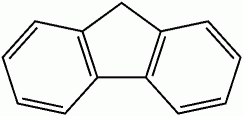 Chemical structure of Fluorene; b/w hires PNG; ChemDraw